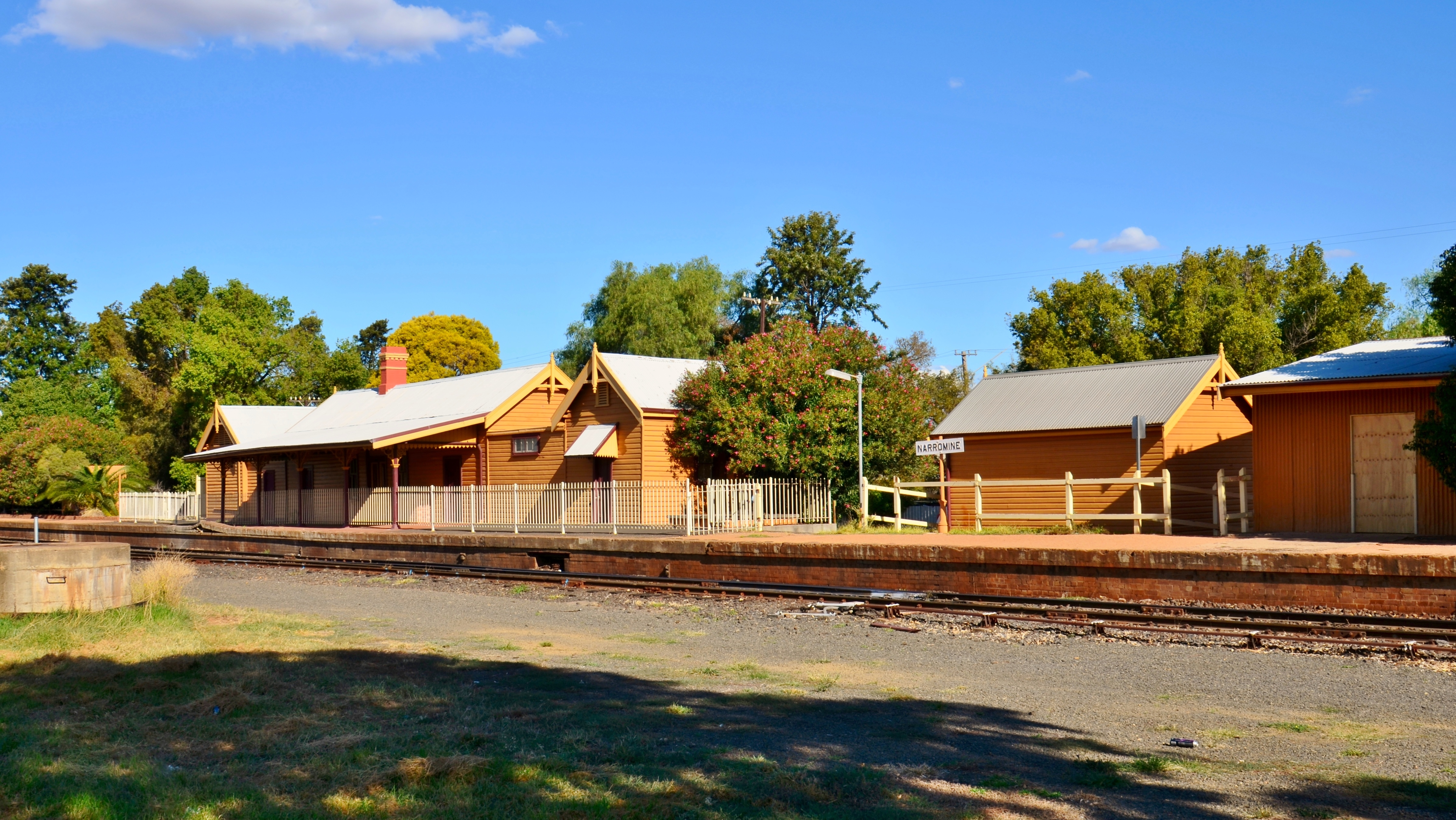 View of the closed Narromine railway station, New South Wales